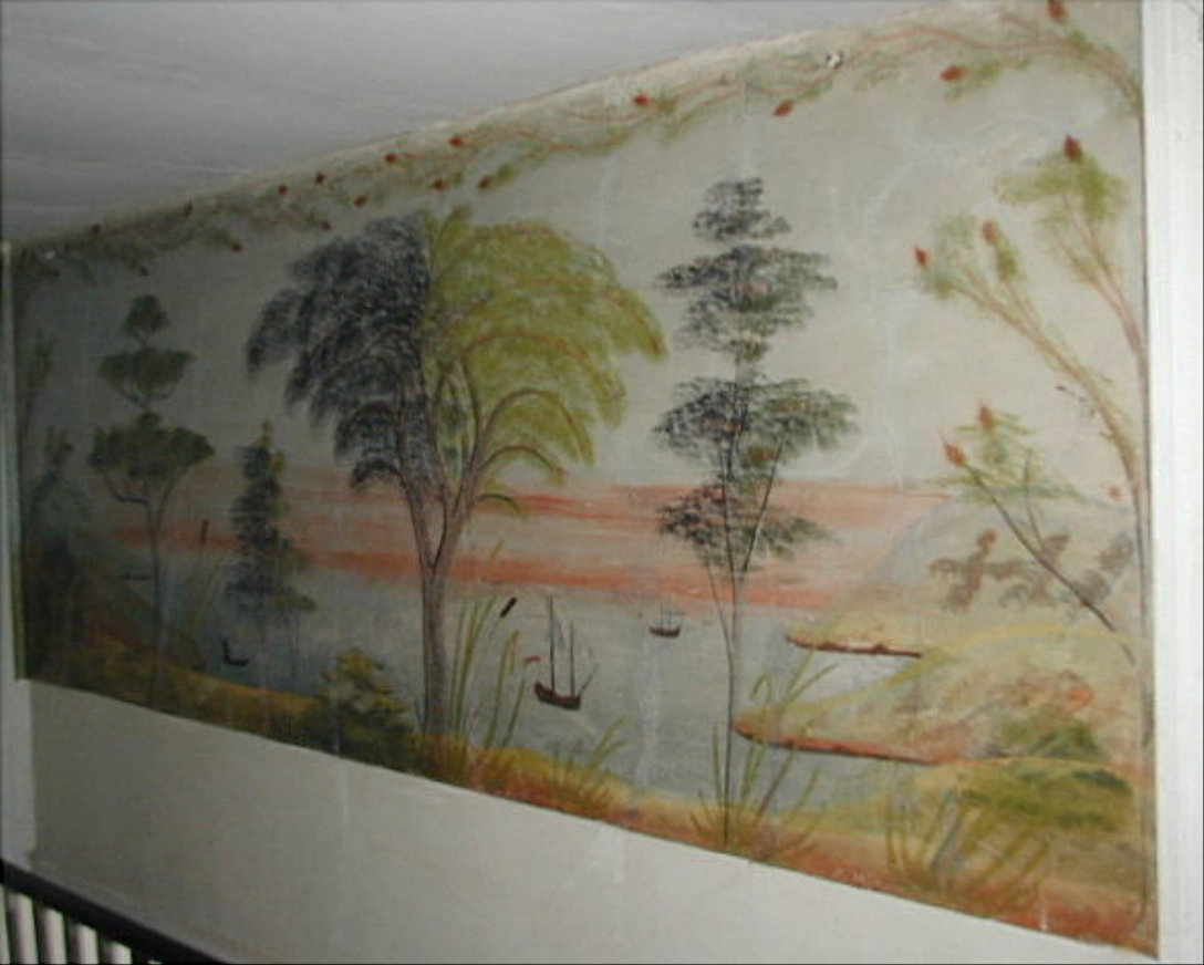 Stair Hall Mural by Rufus Porter (1792–1884) DescriptionAmerican painter, inventor and editorDate of birth/death1 May 179213 August 1884Authority control VIAF: 48050499 ISNI: 0000 0000 6706 6654 ULAN: 500022253 LCCN: n79145488 GND: 1016988915 WorldCat , ca. 1824